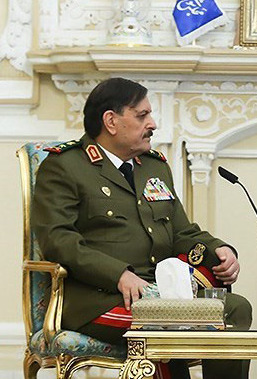 Parliament (Majlis) Speaker Ali Larijani meets Syrian Defense Minister General Fahd Jassem al-Freij in Tehran